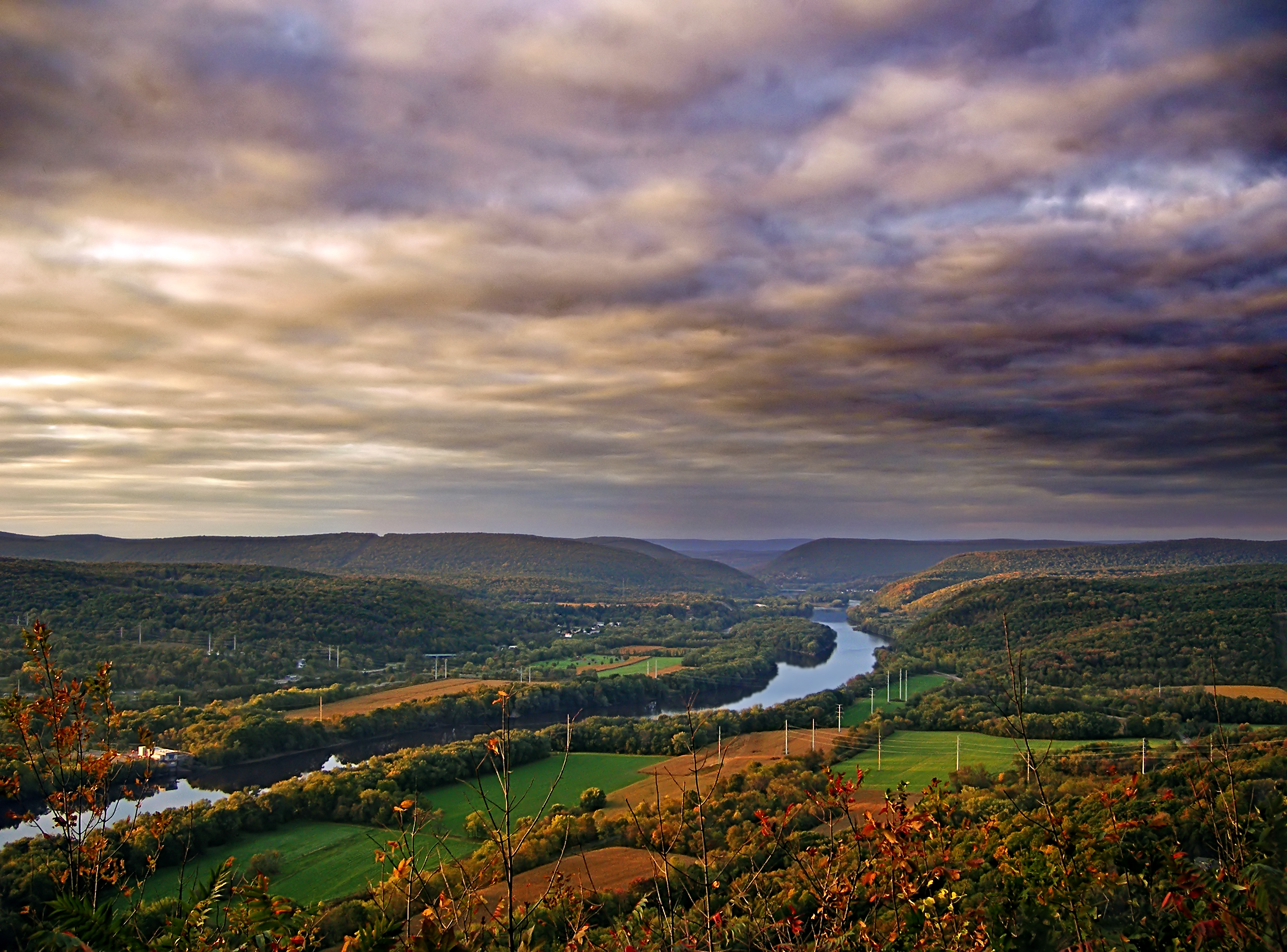 Northerly view of the Susquehanna River Valley from Council Cup Scenic Overlook, Conyngham and Salem Townships, Luzerne County.